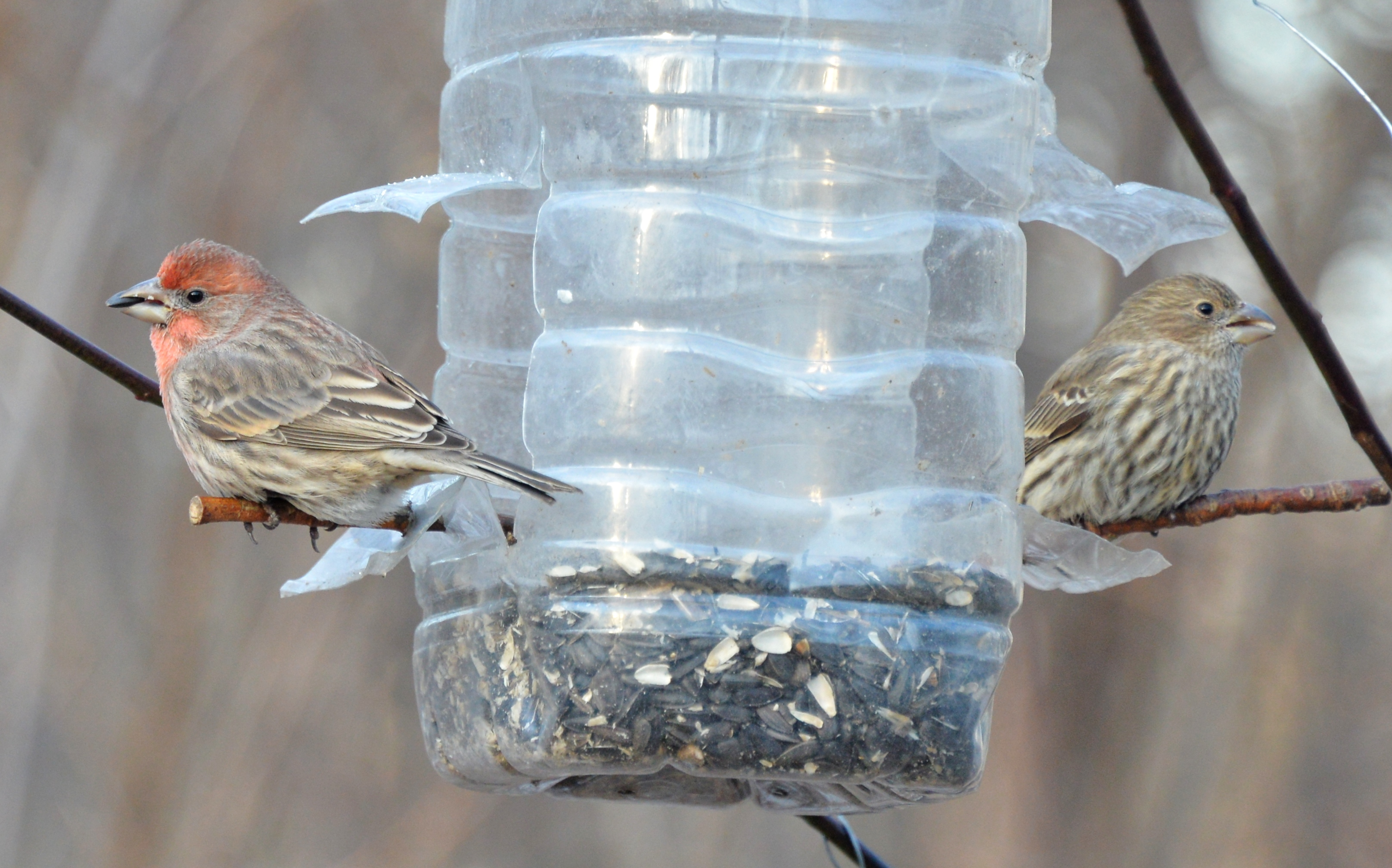 Pair of House Finches (Haemorhous mexicanus) on the birdfeeder in Lambton Woods Park, Toronto